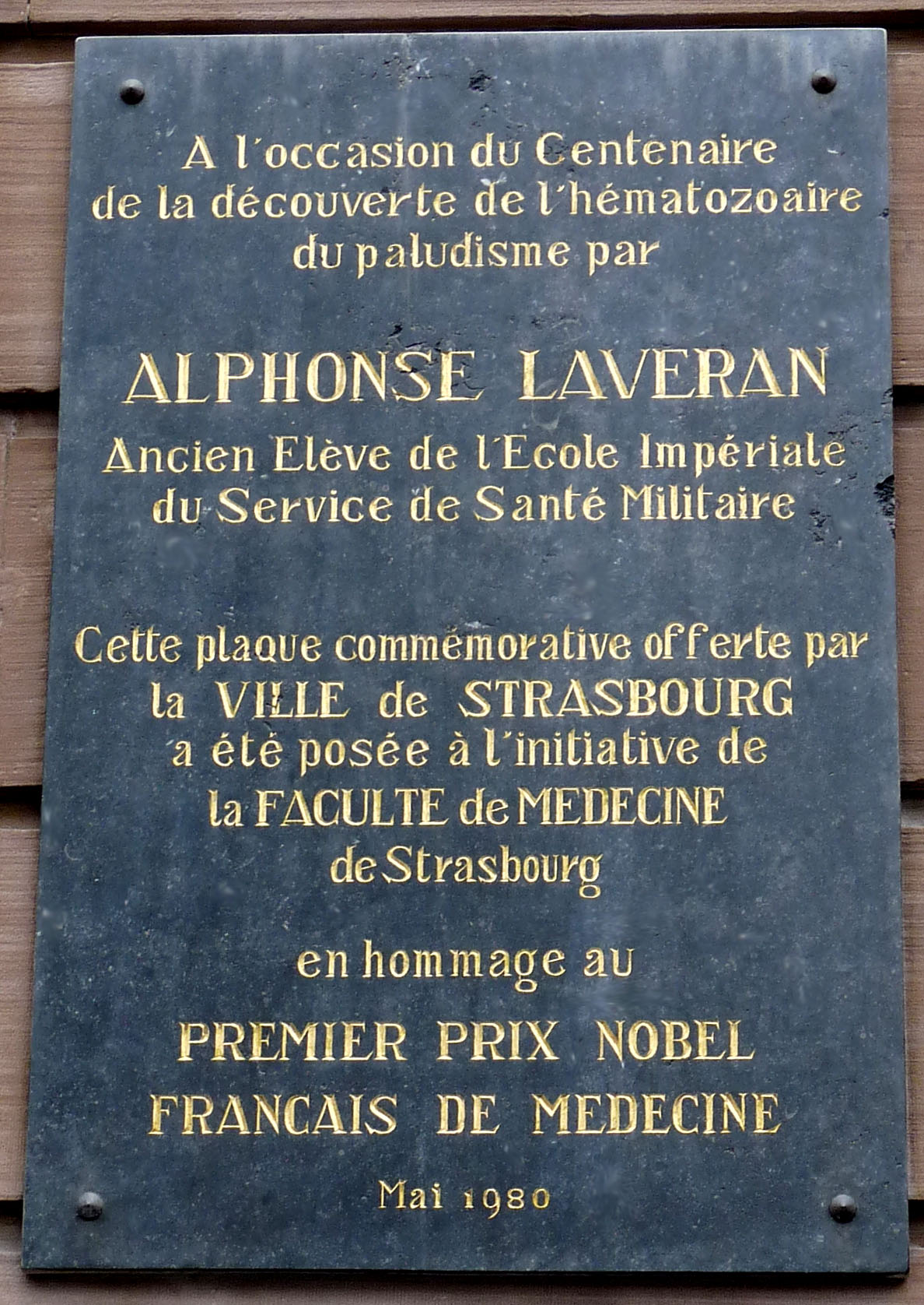 Plaque commémorative pour Alphonse Laveran à Strasbourg, place du Château